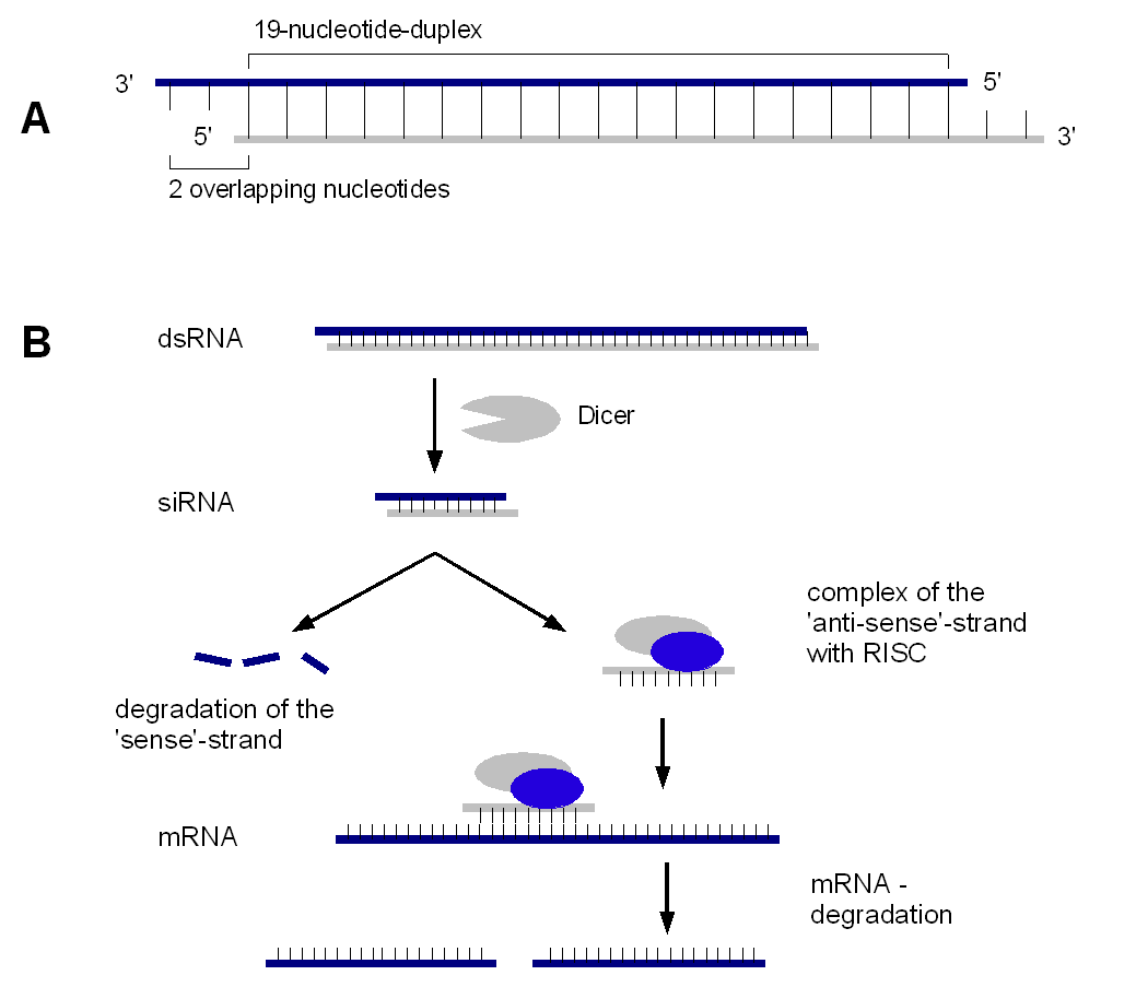 A. structure of siRNA, B. mechanism of RNA-interference